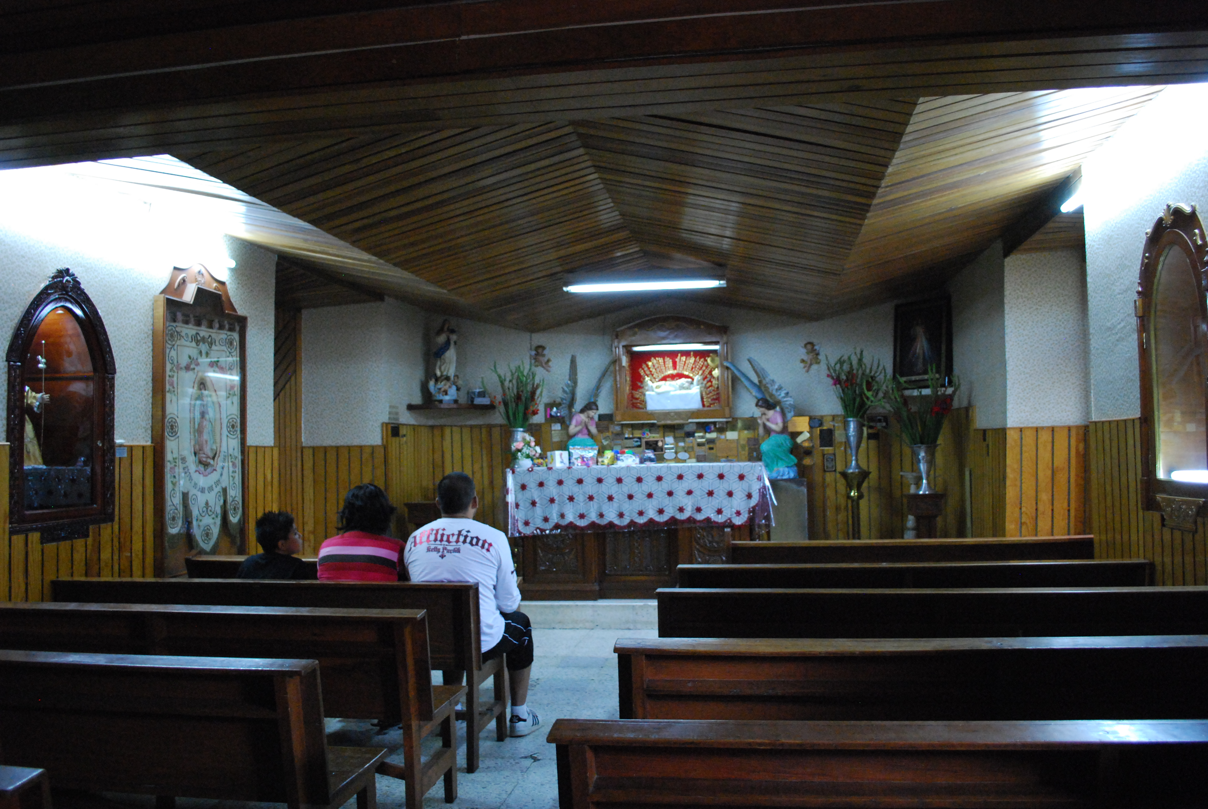 Inside the chapel of the Niño de las Suertes in Tacubaya, Mexico City